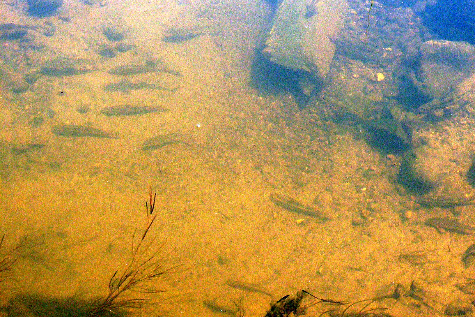 Fish in Crestone Creek on the Baca National Wildlife Refuge. The lower reaches of Crestone Creek which is a spring-fed perennial stream is inhabited by four native fish species: Rio Grande sucker (Catostomus plebeius), Rio Grande chub (Gila pandora), fathead minnow (Pimephales promelas), and longnose dace (Rhinichthys cataractae)